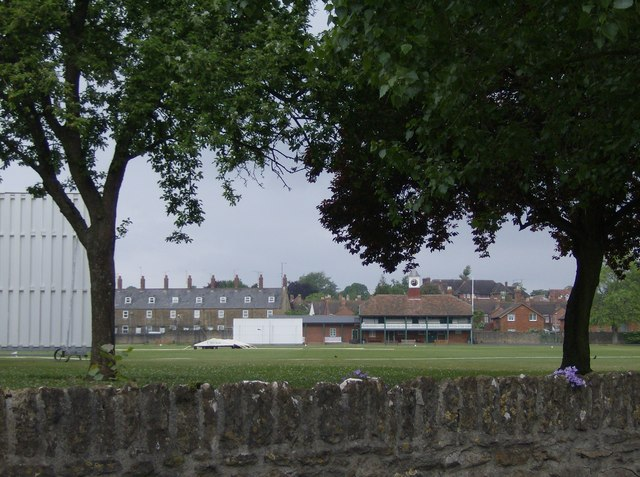 Sherborne School cricket pitch Fewer and fewer schools have playing fields these days, but they are still very important at the public schools such as Sherborne.